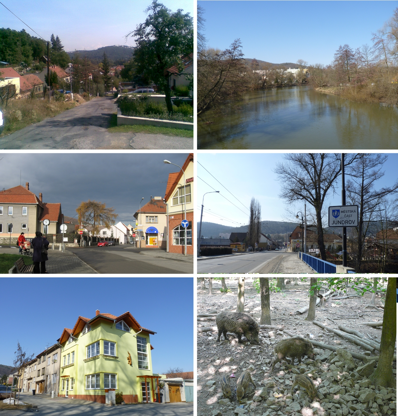 Boar in deer-park Holedná in Brno